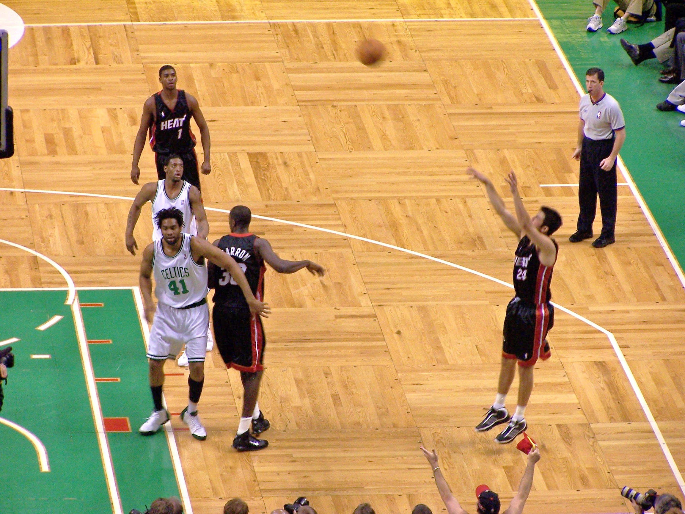 Jason Kapono attempts a jump shot while open during the final 2005-2006 regular season game of the Miami Heat in Boston.